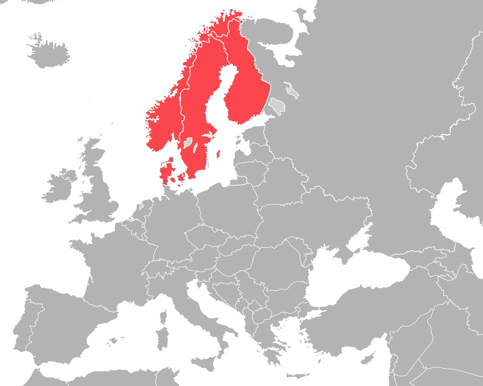 Business Bank Norwegian by countries